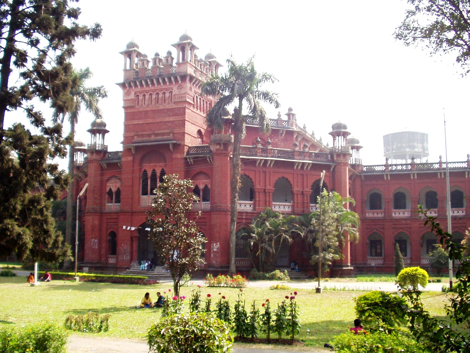 Karjon hall, Dhaka University